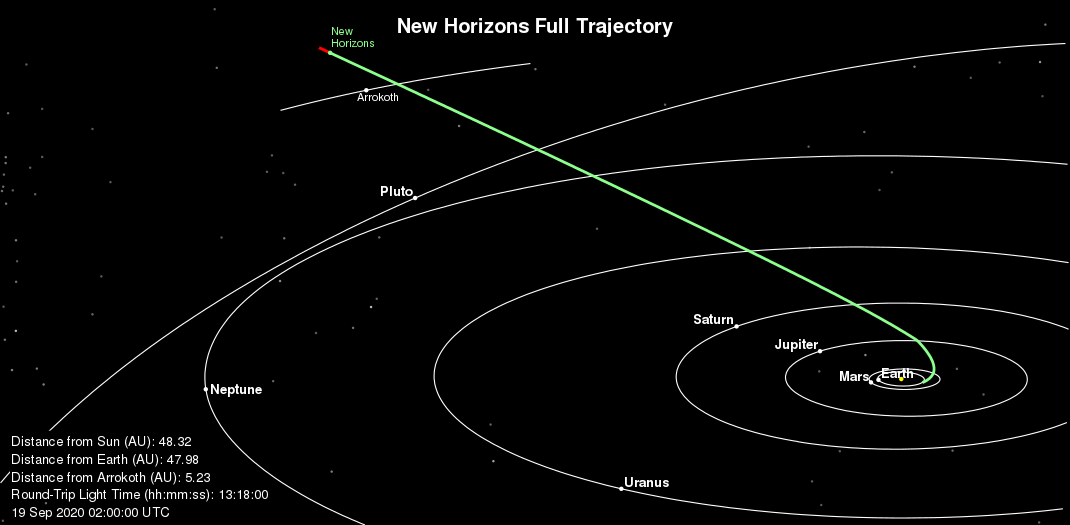 Full trajectory of New Horizons space probe (sideview)